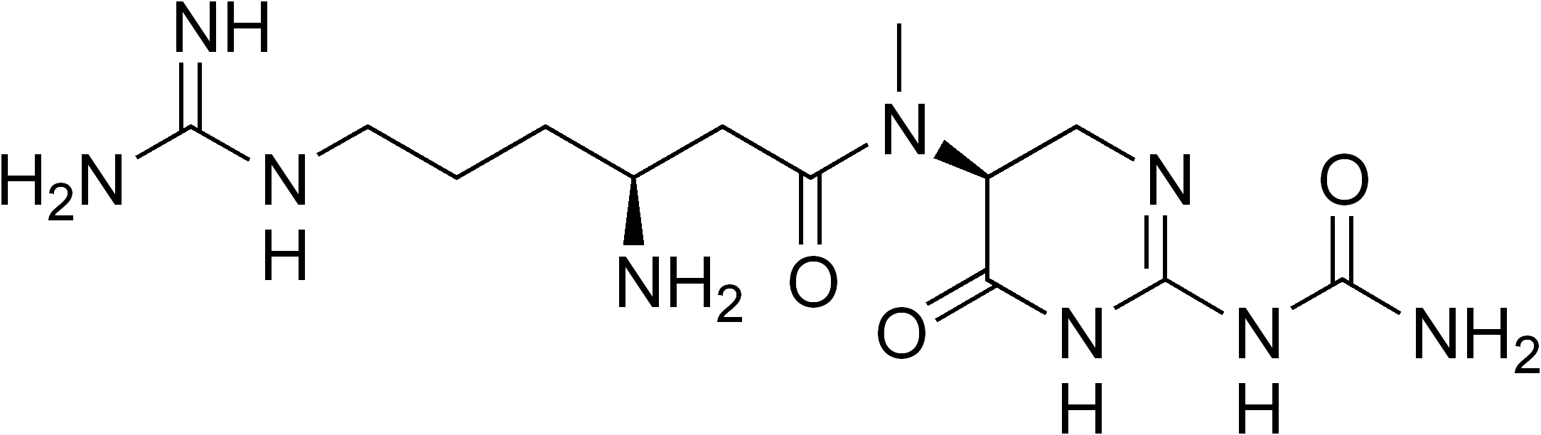 chemical structure of TAN-1057 A